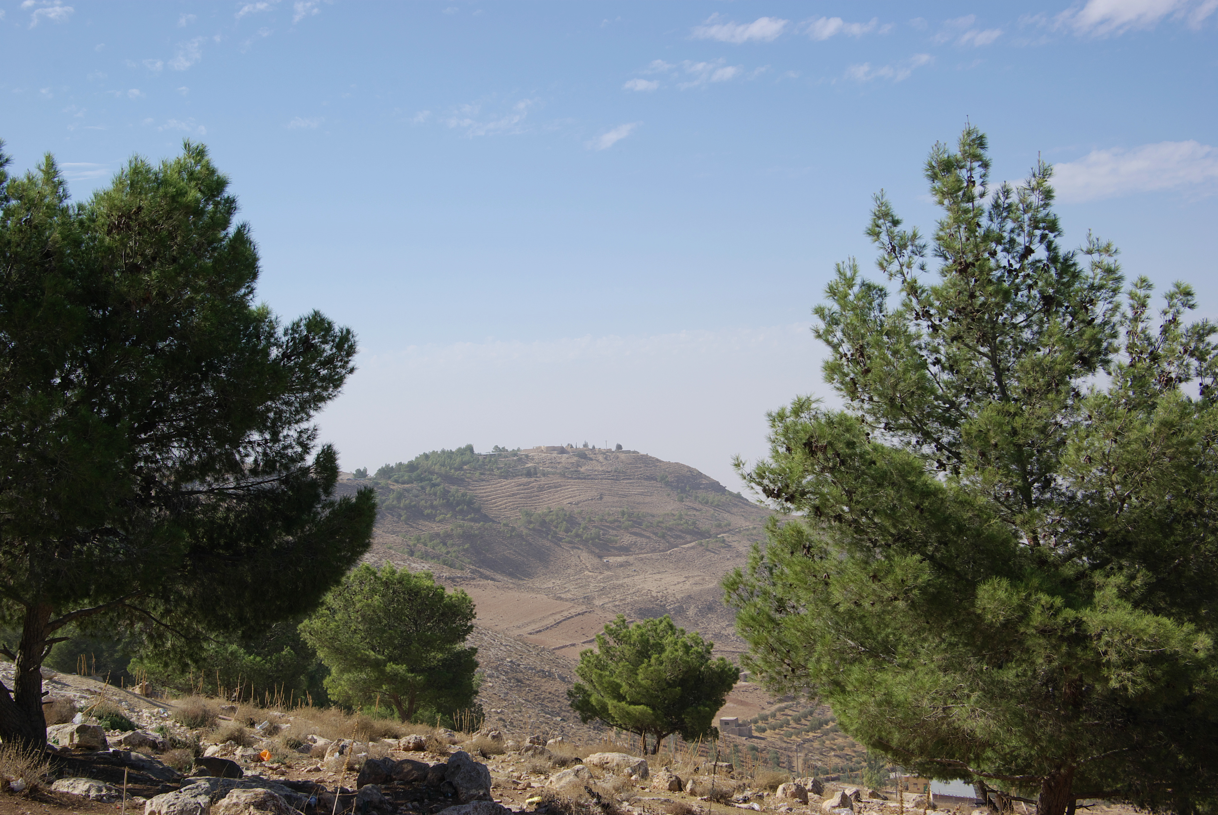 Mount Nebo, seen from east at a distance from 1.4km